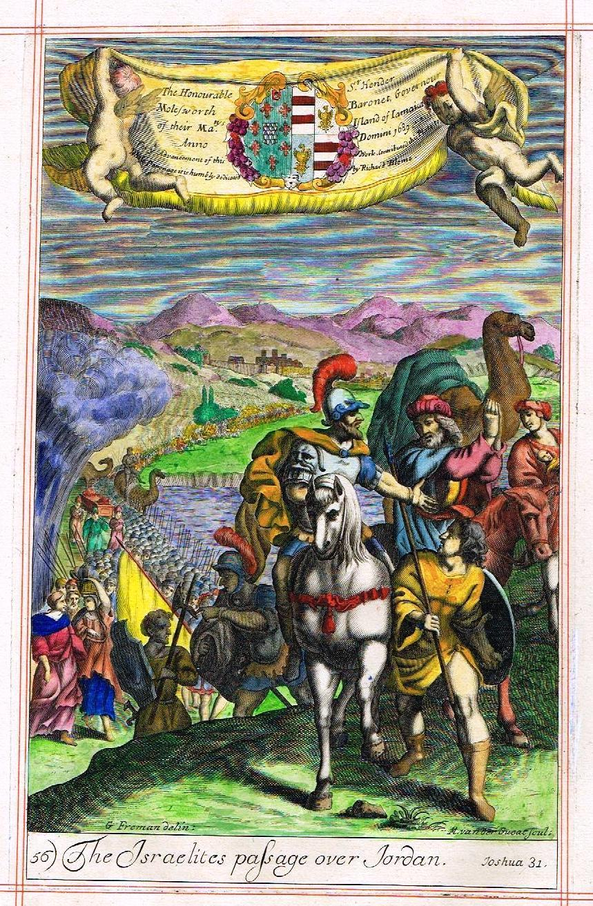 Israelites Crossing the Jordan River while carrying the Ark of the Covenant on Yom HaAliyah, 10th of Nisan.